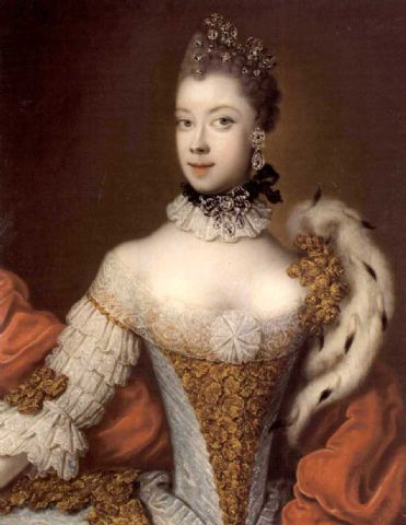 Sold at Sotheby's London on Thursday, 25 November 2004. From a private collection.